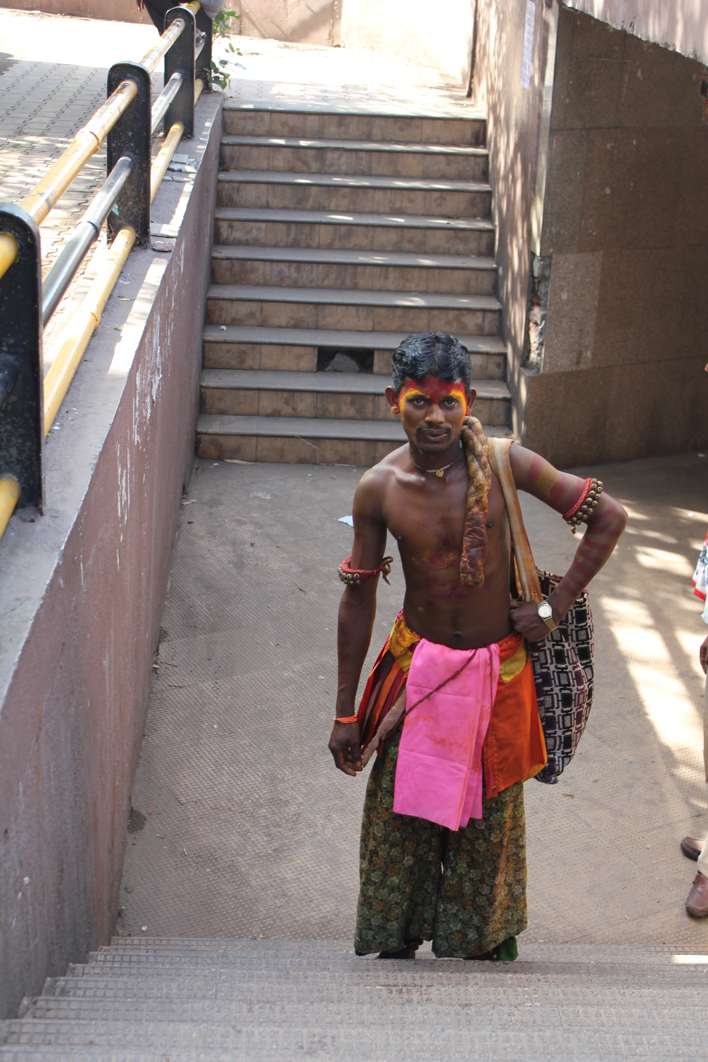 Potraj